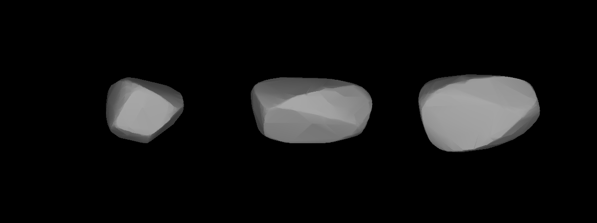 A three-dimensional model of 2709 Sagan that was computed using light curve inversion techniques.